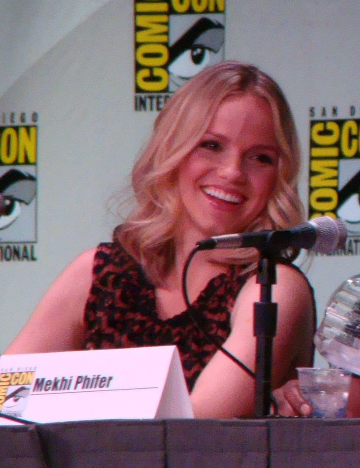 Alexa Havins at the 2011 San Diego Comic-Con International.